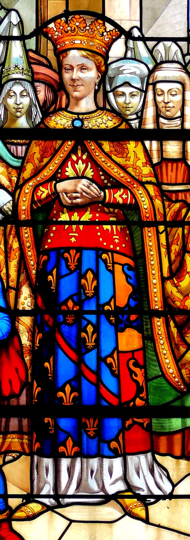 Anna, Dauphine d'Auvergne et Comtesse de Forez.